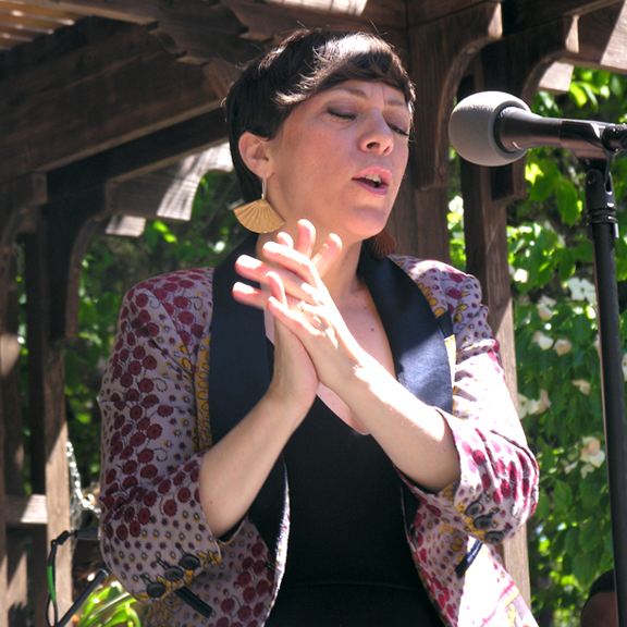 Gretchen Parlato at Jazz at Filoli, Woodside CA 6/21/15 Photo: Brian McMillen /